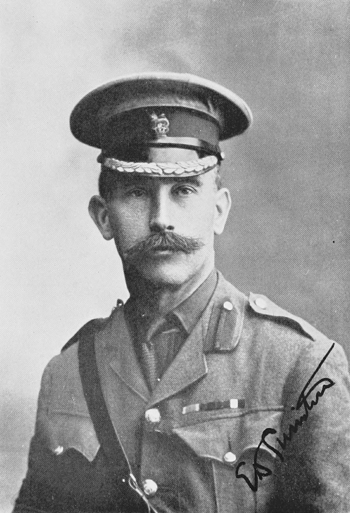 Portrait photograph of Major General Sir Ernest Dunlop Swinton (E. D. Swinton), 1868-1951.